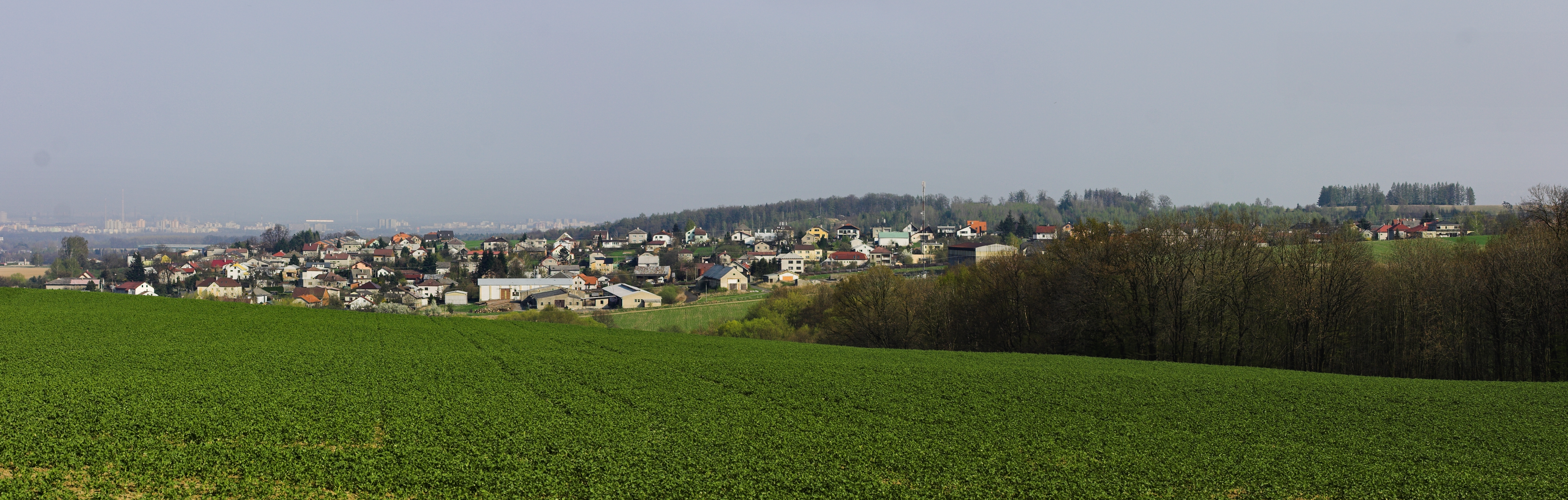 Vřesina in Ostrava district. April 2009. Panorama, 70 mm. Unfortunately without tripod.